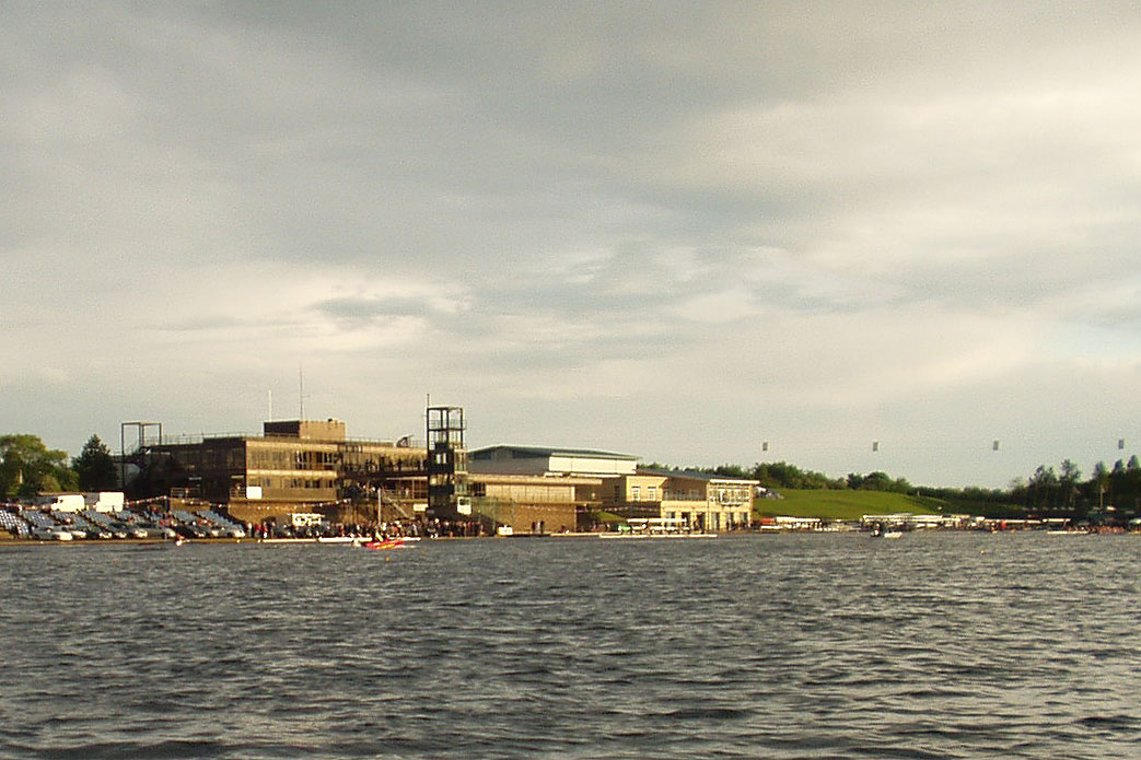 View of the Holme Pierrepont National Watersports Centre. Photo taken by Johnteslade.